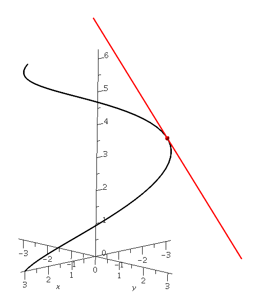 spacecurve and tangent